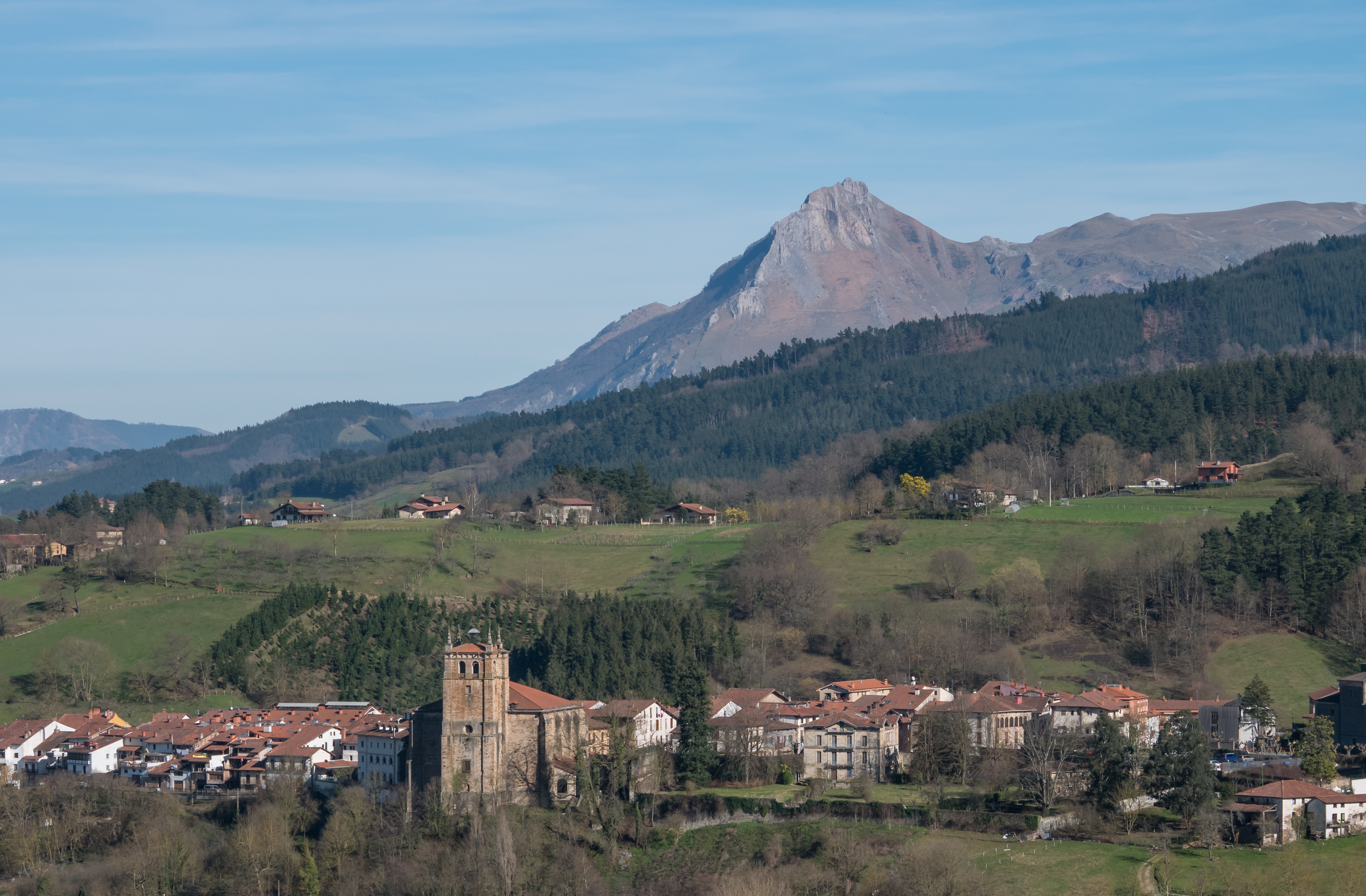 View of Segura and the mountain Txindoki. Gipuzkoa, Basque Country, Spain